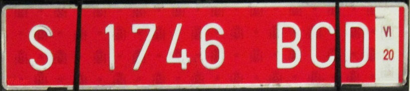 License plate of Spain (Dealer)